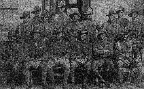 'Heroes of the 47th'. Decorated veterans of the 47th Battalion Australian Imperial Force, photographed possibly at the disbandment of the 47th Bn in May 1918, France. 2504A PTE Caleb Shang DCM & Bar, MM, centre, standing.